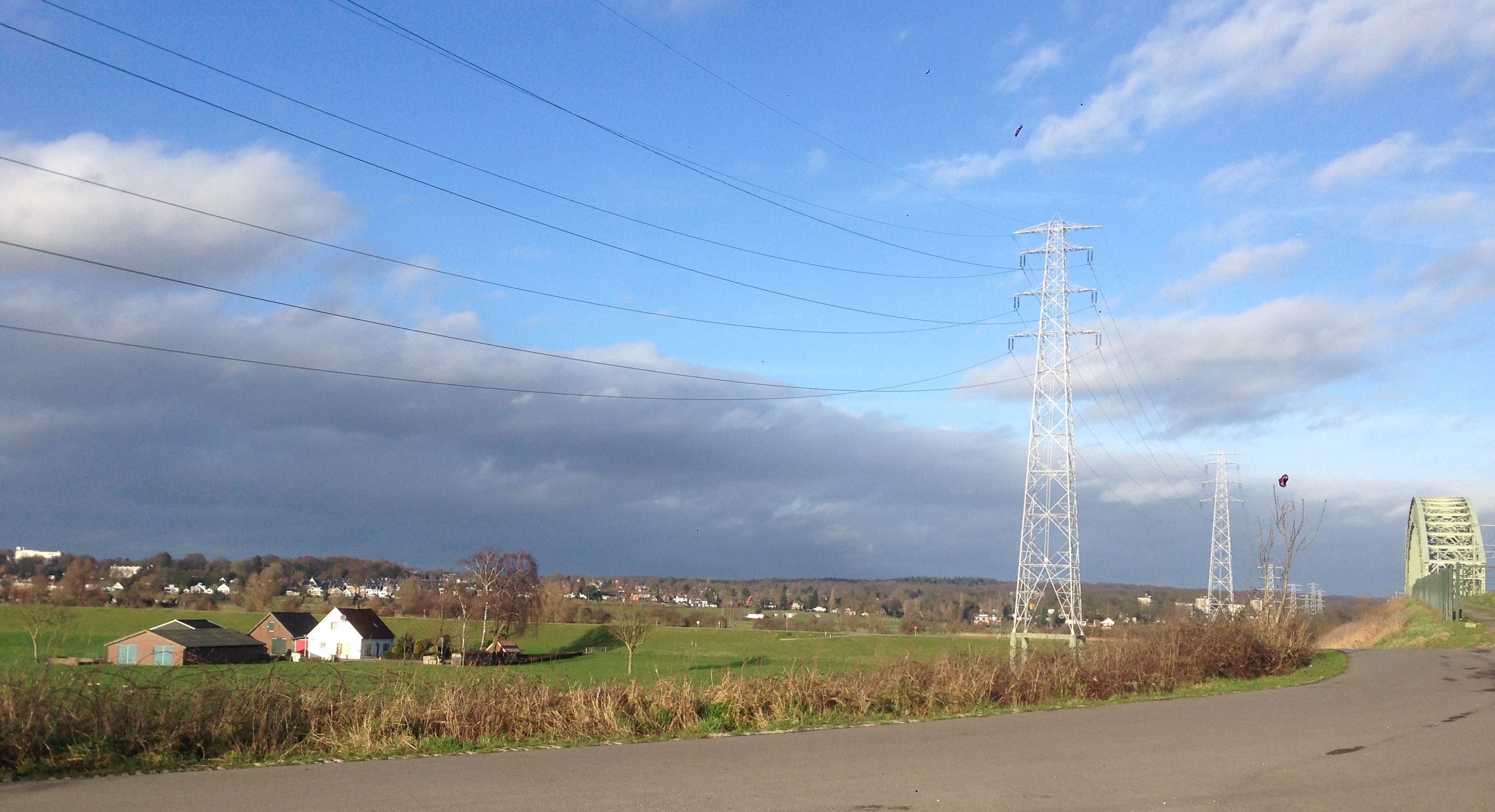 Oosterbeek and Driel. Battle of Arnhem